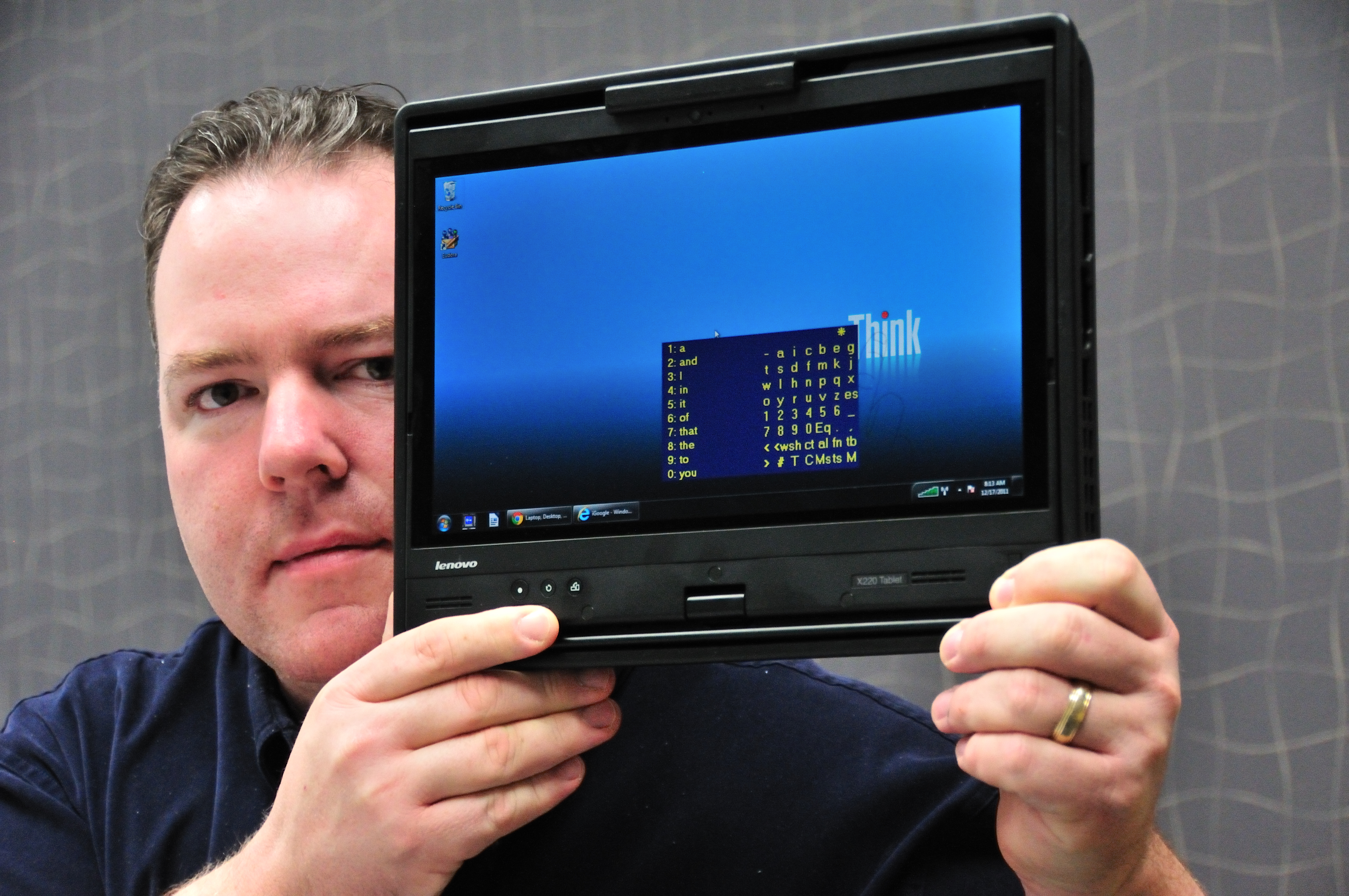 Intel engineer Travis Bonifield holds a replica of the custom PC "Lenovo ThinkPad X220 Tablet" he recently created for Stephen Hawking.